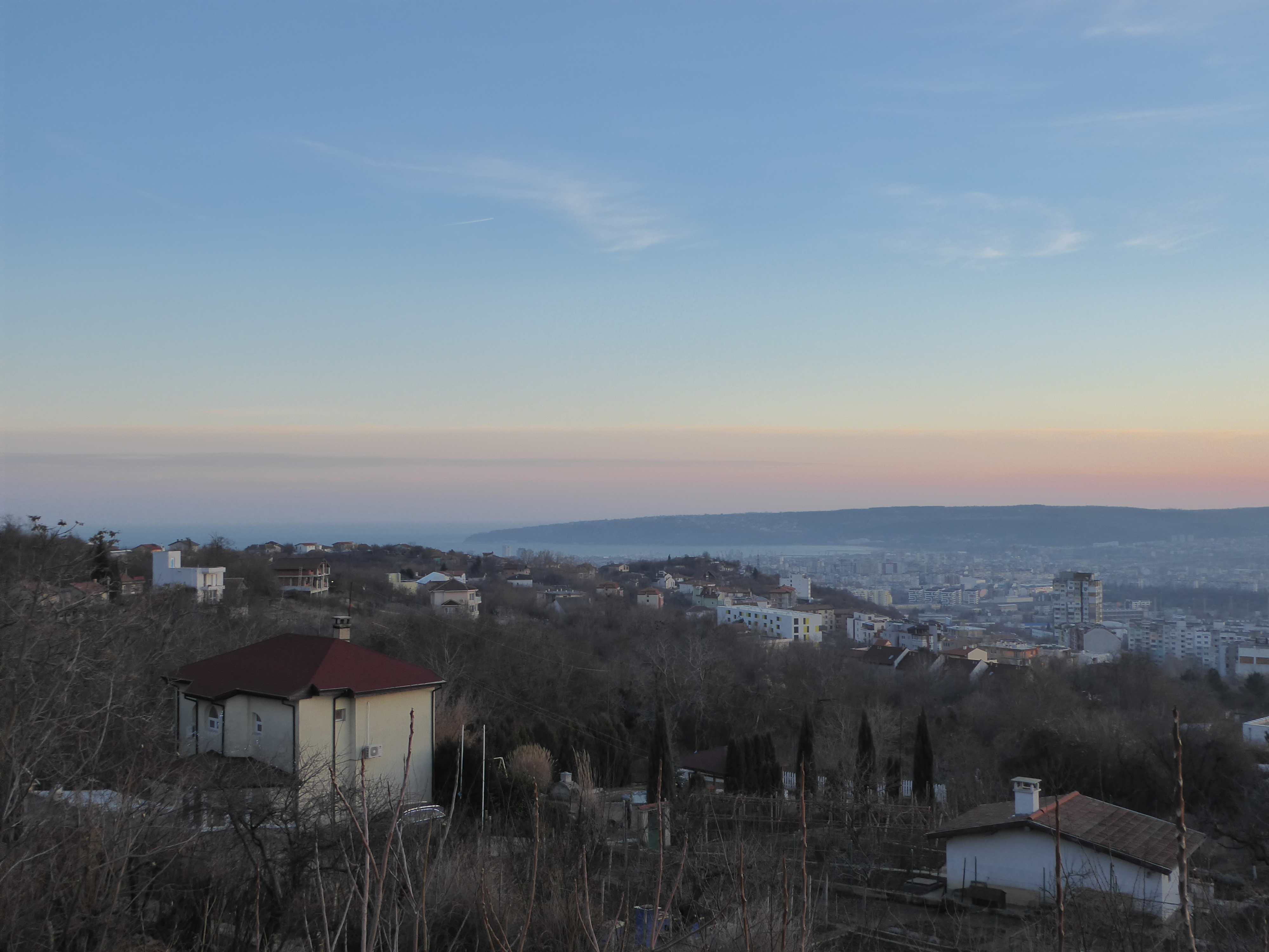 Royal Monastery „Holy Virgin“, Varna, Bulgaria, 9th century